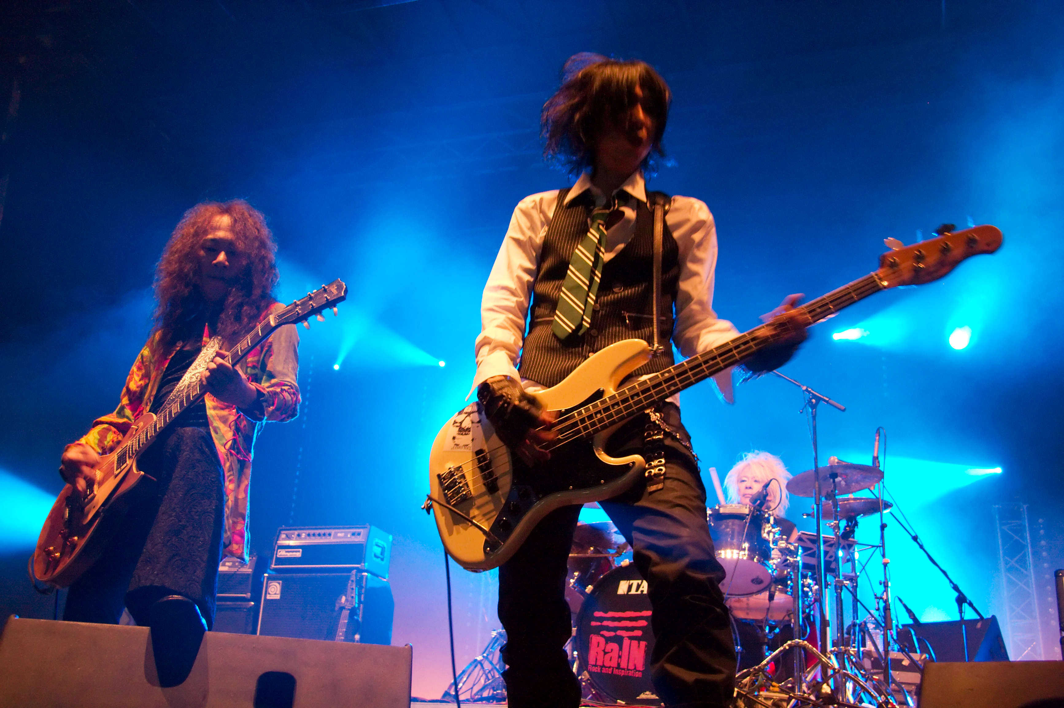 Ra:IN live at Japan Expo 2009 (Paris, France).